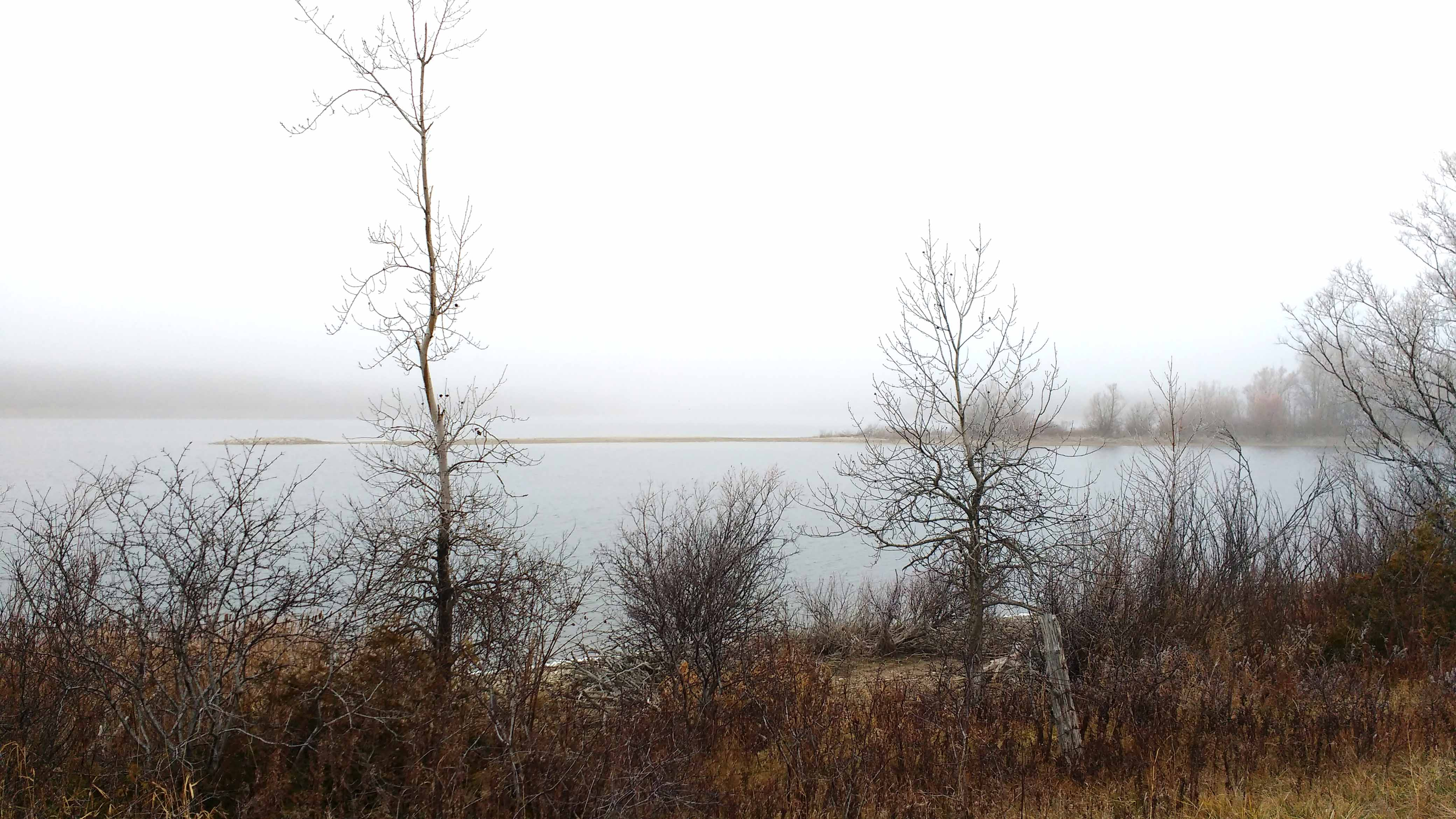 Guelph Lake taken from Wellington Road 24 North. Sunday December 6th. A day when all low lying areas were shrouded in fog and everything had a thin coating of ice.